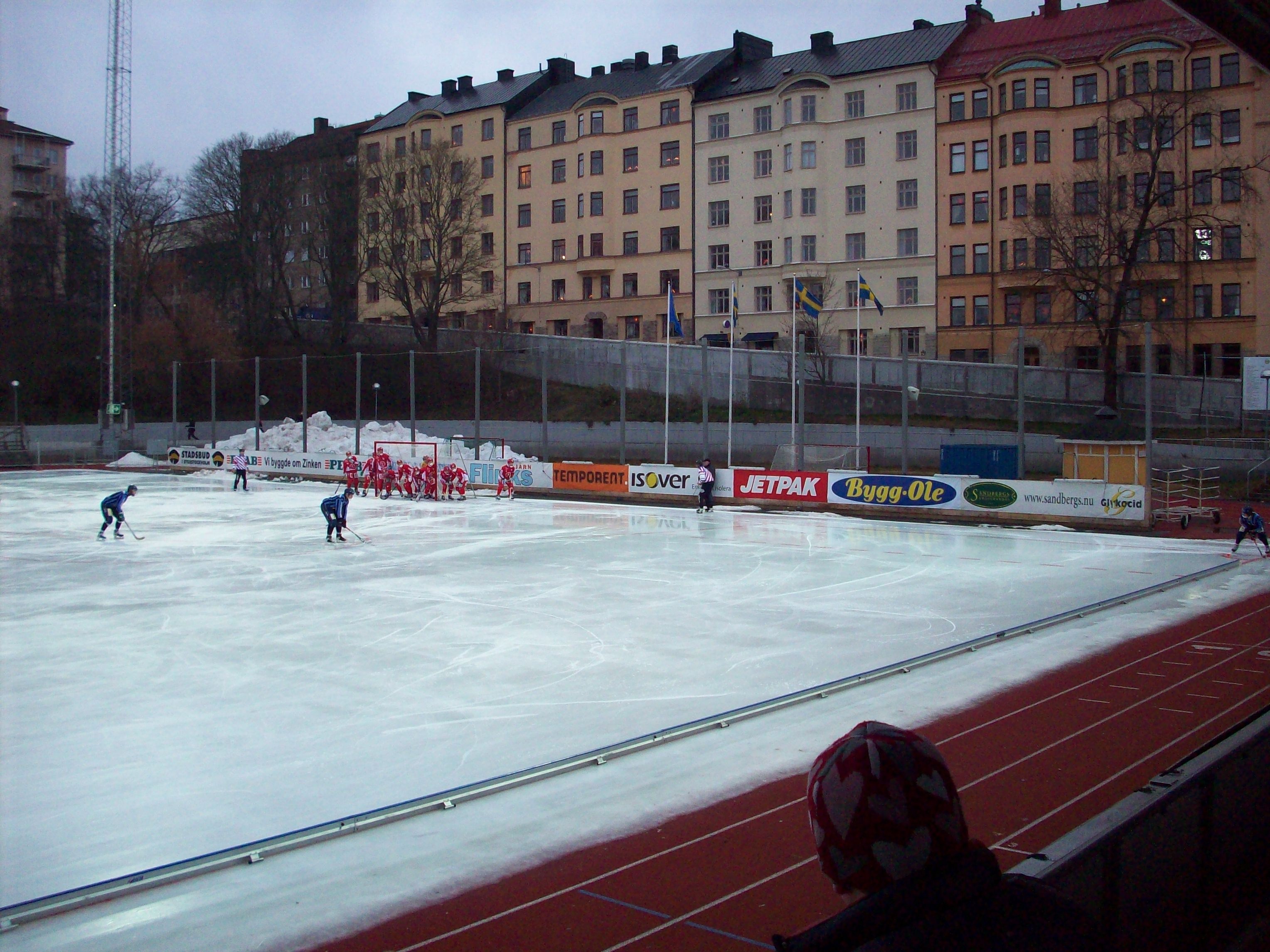 Zinkensdamms IP. A corner situation during the match between Djurgårdens IF and Gustavsberg.